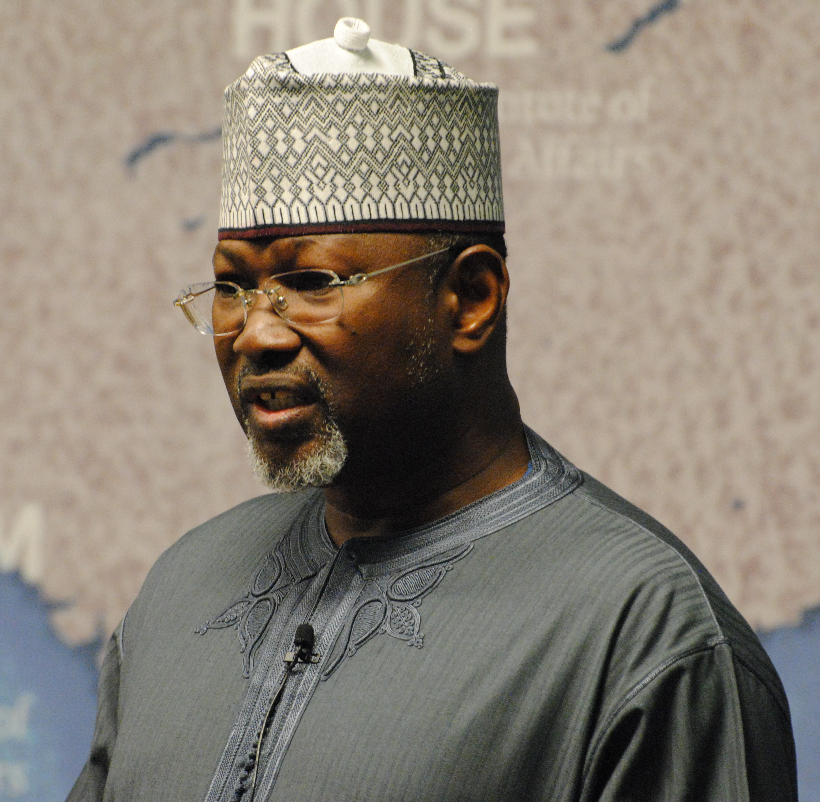 Challenges of Modernizing Election Processes: The Nigerian Experience, 16 March 2016, cht.hm/21W3m9O